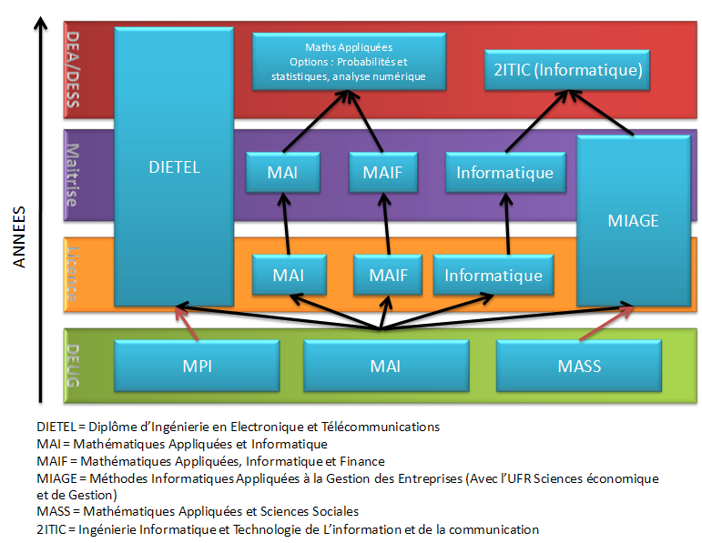 This is a general picture of available formations in faculty of Applied Sciences and Technology in Gaston Berger University(Sénégal).